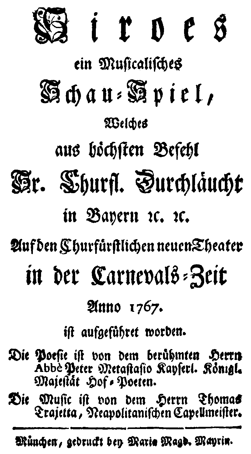 Tommaso Traetta - Il Siroe - german titlepage of the libretto - Munich 1767